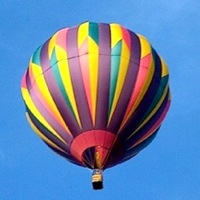 One of the last Aerostar International, Inc. balloons own by Guru Balloon